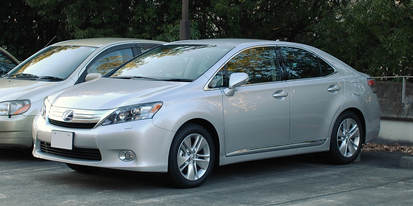 Lexus HS250h (2009/7-)